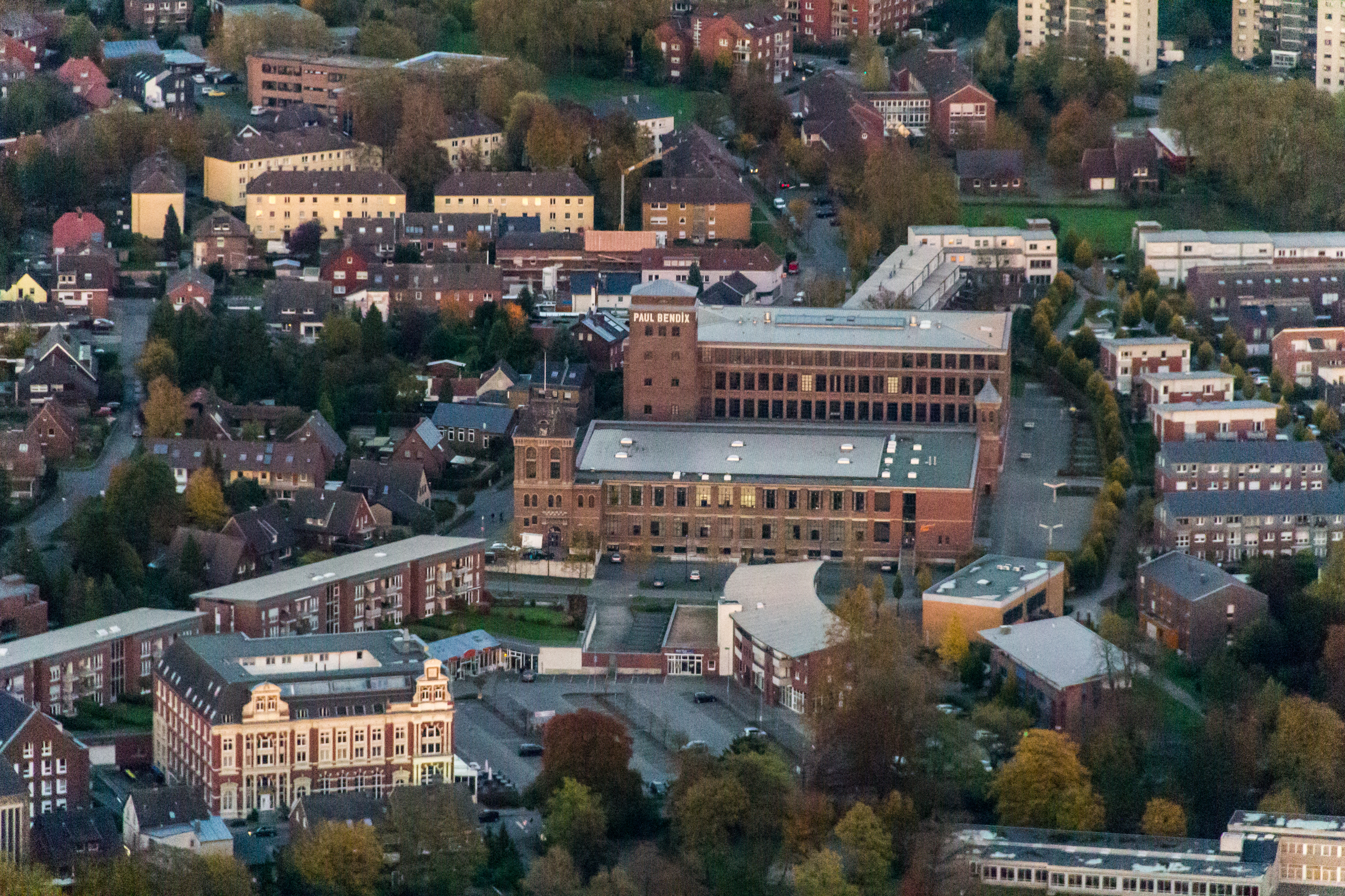 Annette von Droste Hülshoff High School, Dülmen, North Rhine-Westphalia, Germany